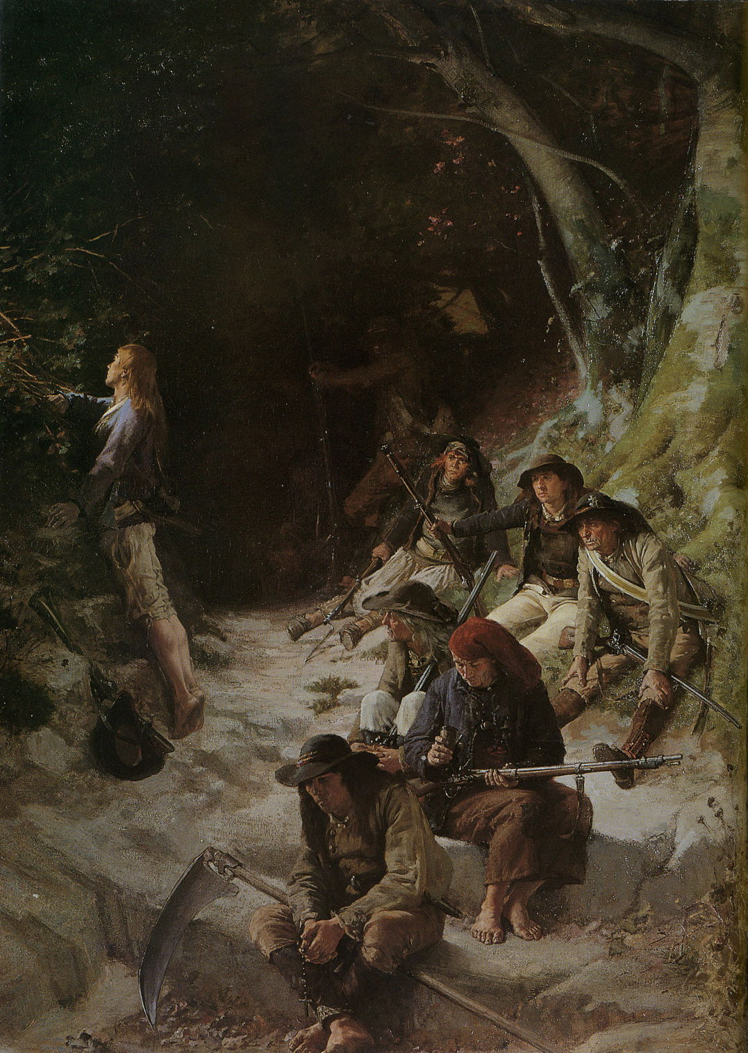 Episode of Chouannerie